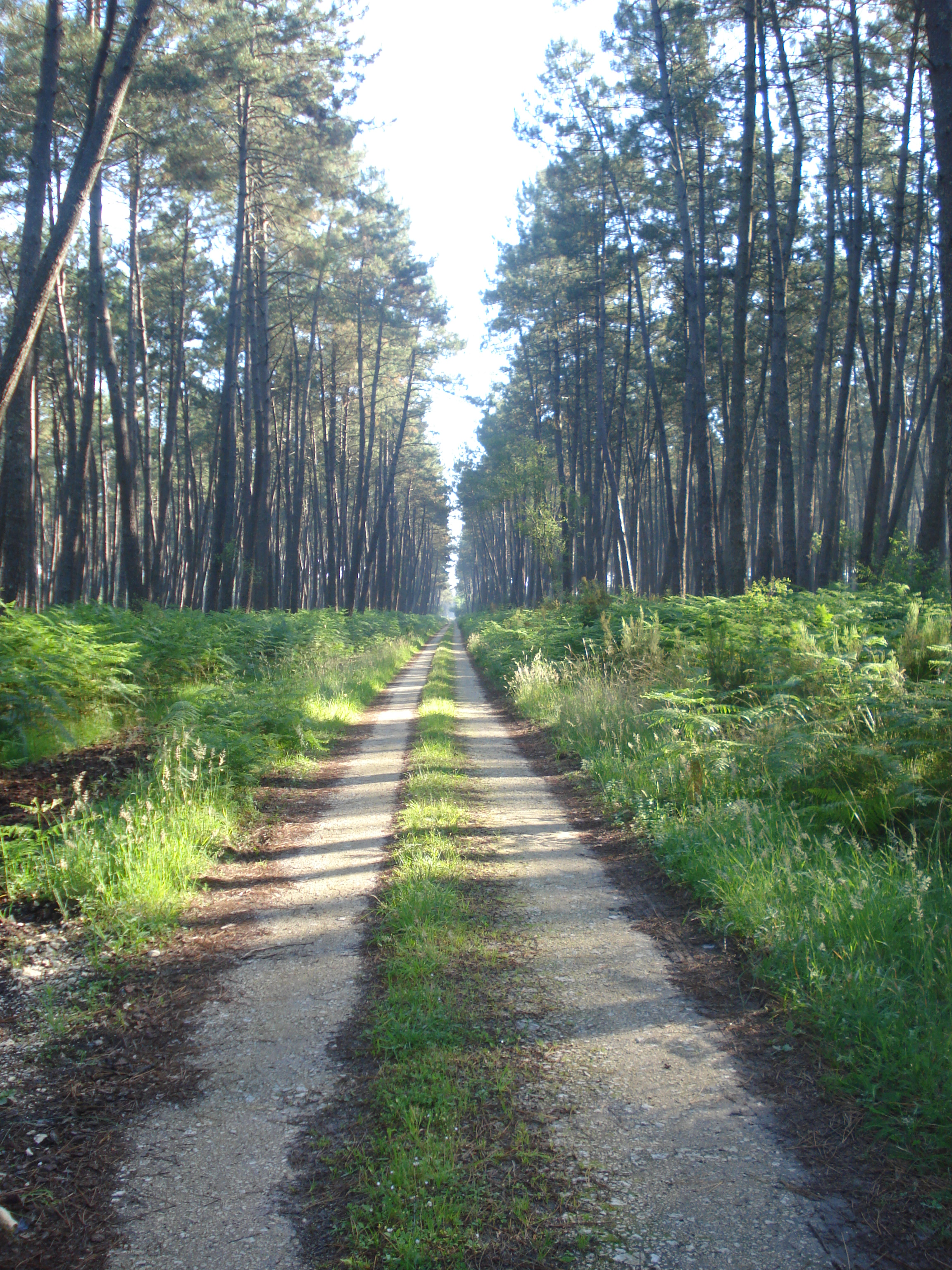 Retjons (Landes (Fr), a forest way, part of the Way of St.James